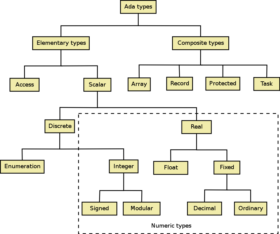 Ada type hierarchy.